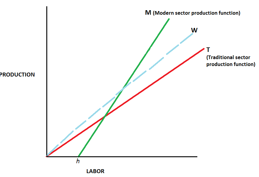 Production fns